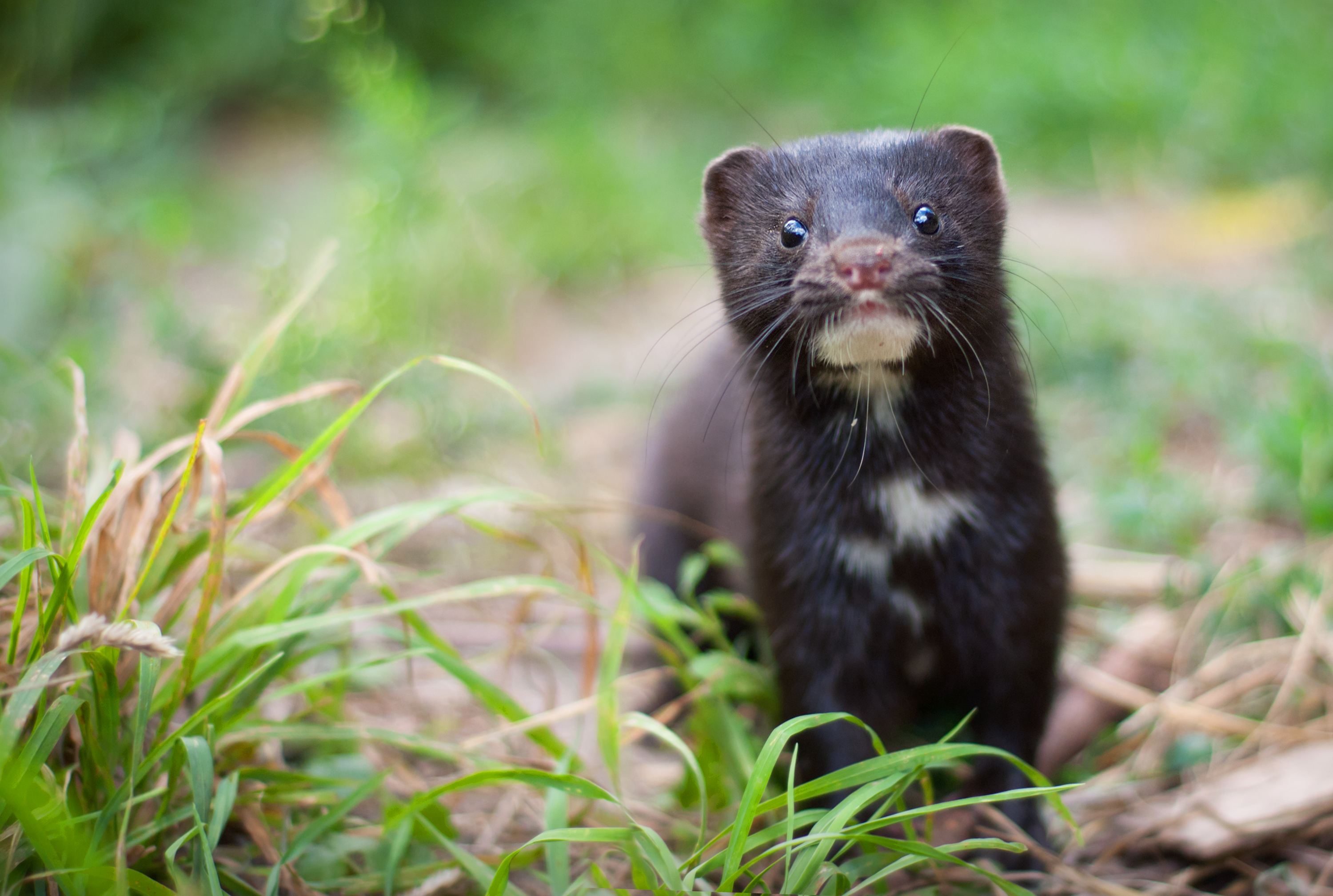 American mink (Neovison vison)